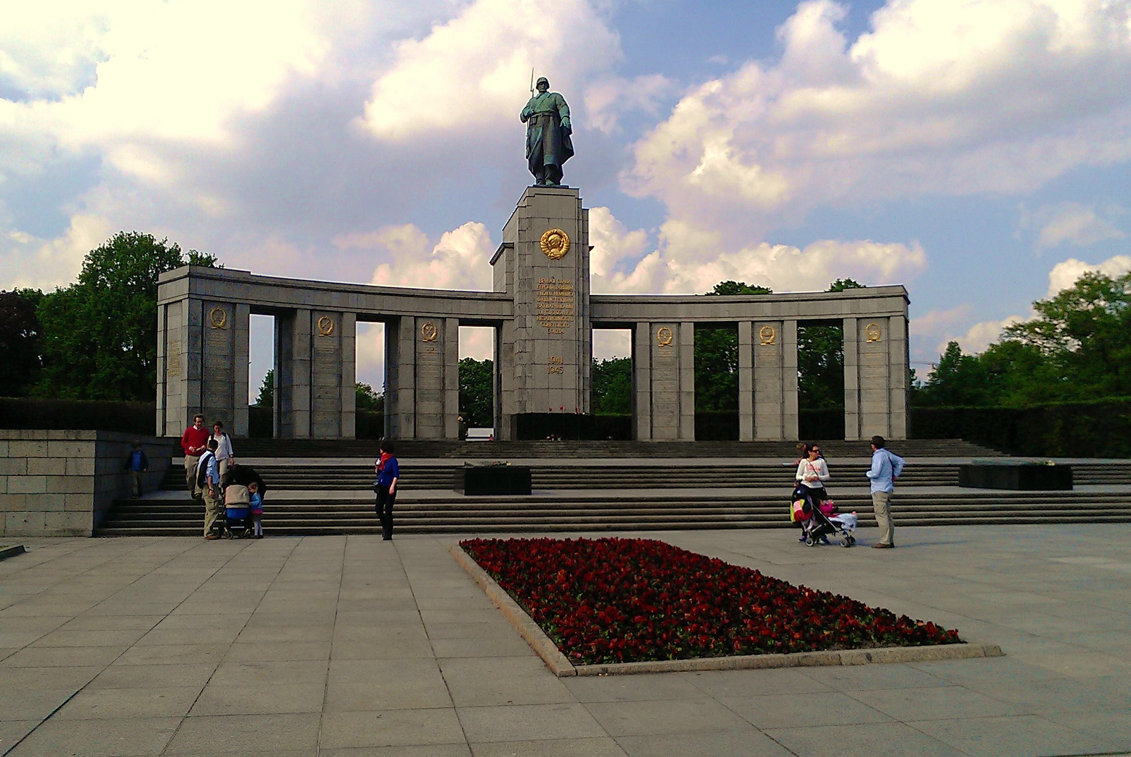 The Soviet War Memorial in Berlin.